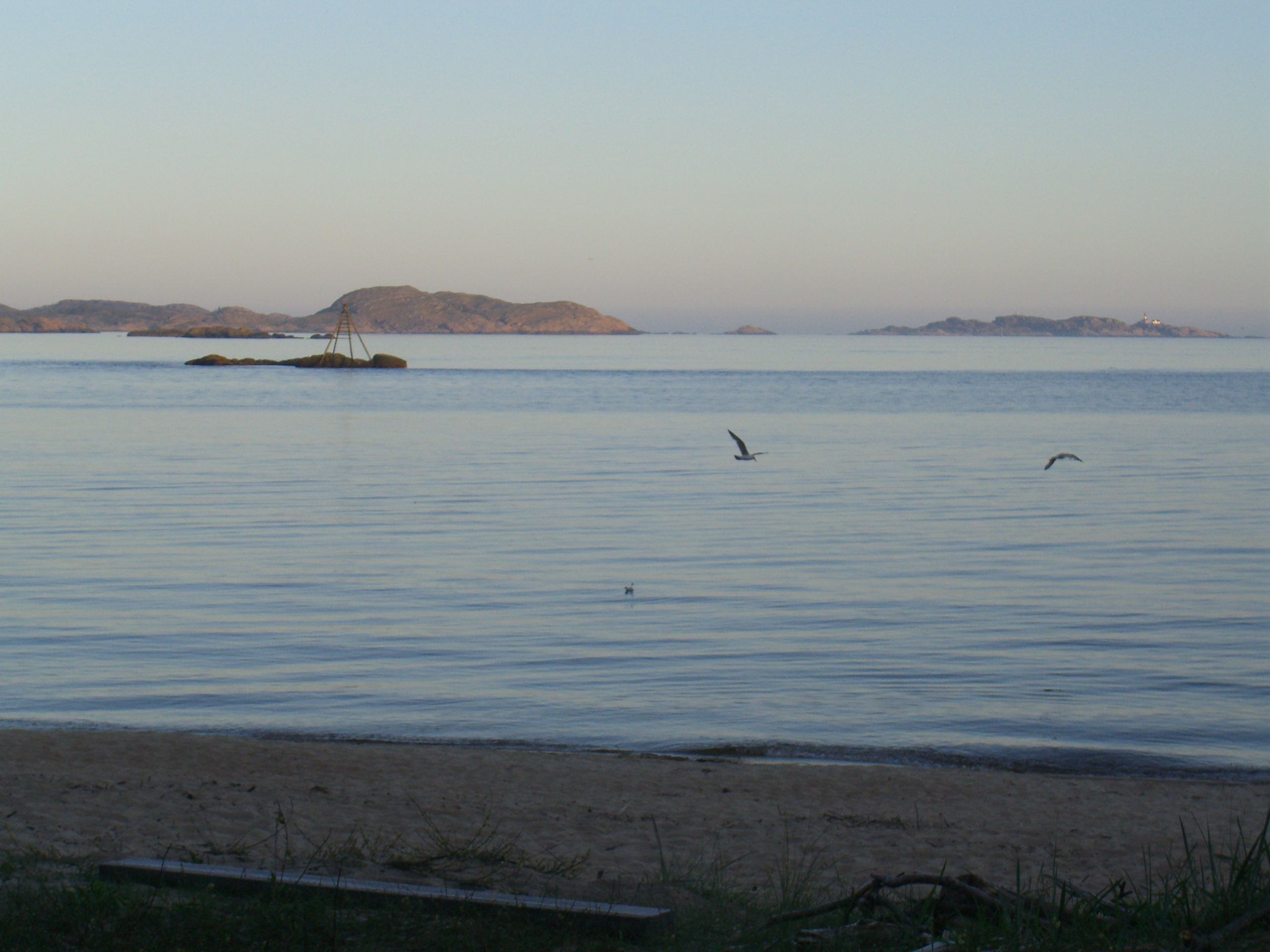 Sjøsanden beach, Mandal. On a bicycle trip Tregde - Lista along the North Sea Cycle route